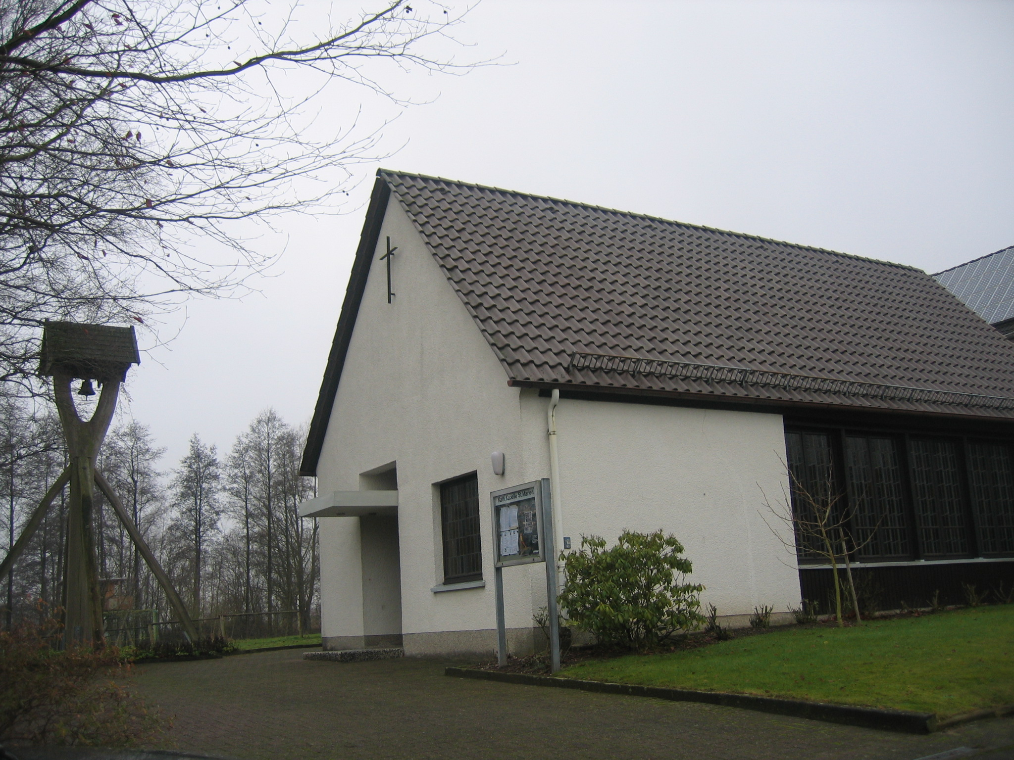 Catholic church in Bünde-Ennigloh, District of Herford, North Rhine-Westphalia, Germany.